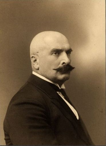 Paul Ernst Emil Sokolowski